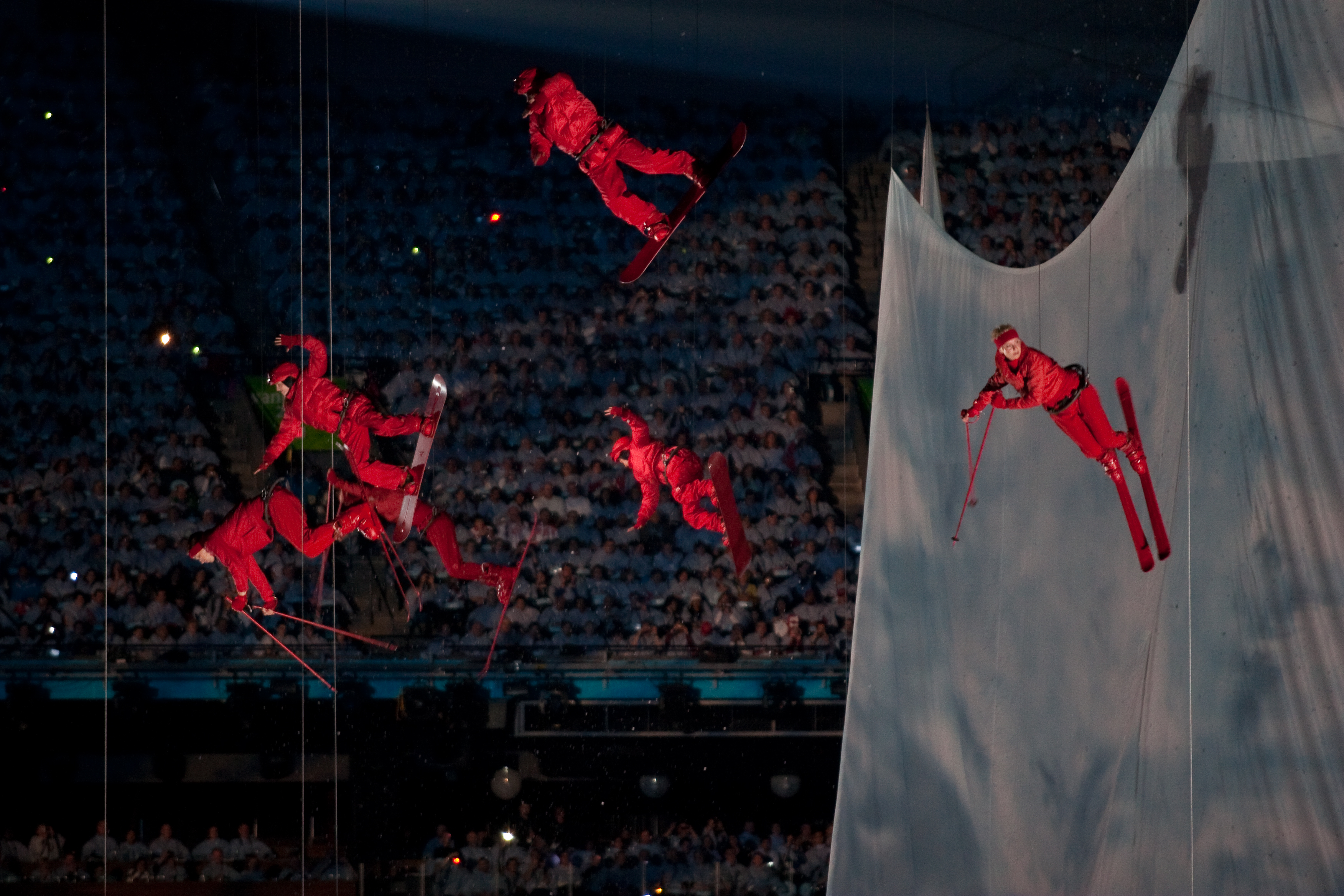 Aerialists mimicking skiing downhill as part of the "Peaks of Endevour" section of the 2010 Winter Olympics opening ceremony